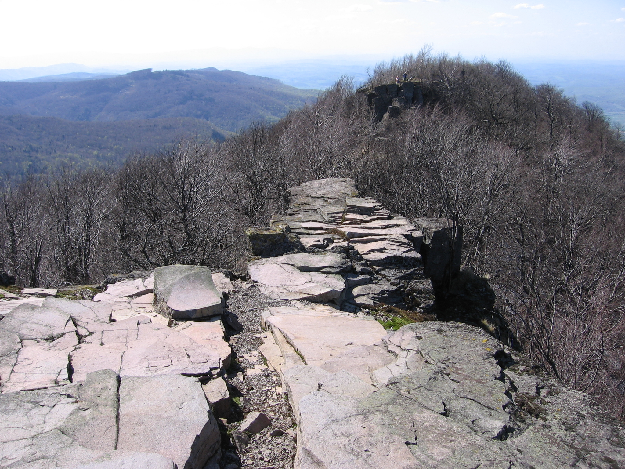 Slovakia, Vihorlat mountain, Sninsky kamen peak - the tip of the top rock and the other peak.